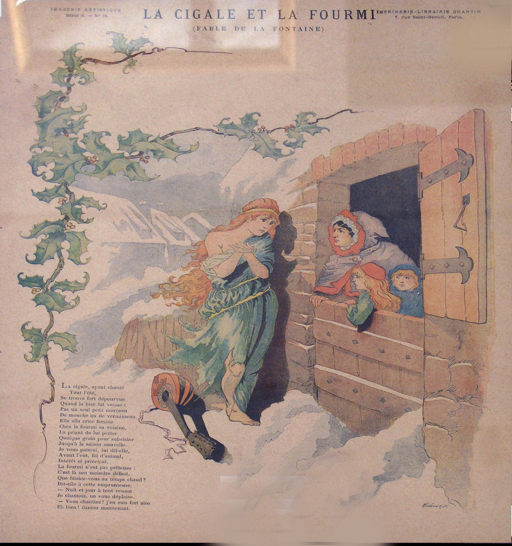 "La cigale et la fourmi" (The cricket and the ant), fable by Jean de la Fontaine (1621-1695); print from the 19th century